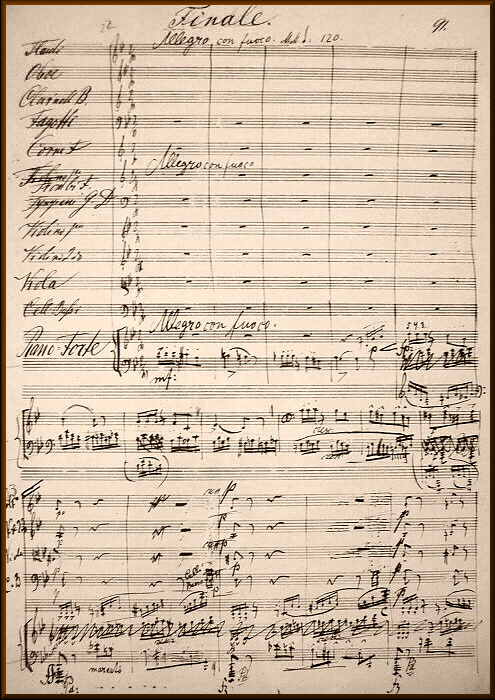 Page from Dvořák's Piano Concerto in G minor, Op. 33, 3rd movement